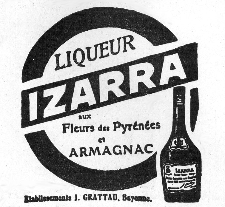 Izarra liqueur advertisement of 1924